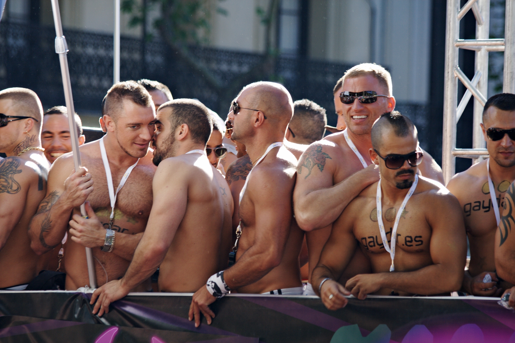 LGBT pride parade in Madrid (Spain) 2008